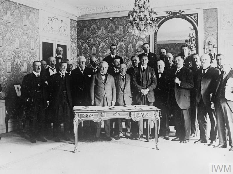 British delegates at the Paris peace Conference 1919